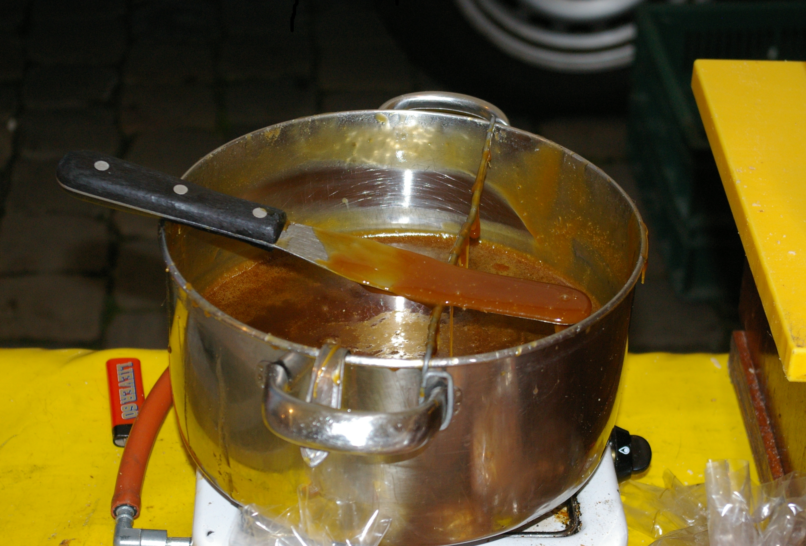 The caramel syrup used to make stroopwafels. Stroopwafel stand on the market of the city of Gouda, Netherlands.